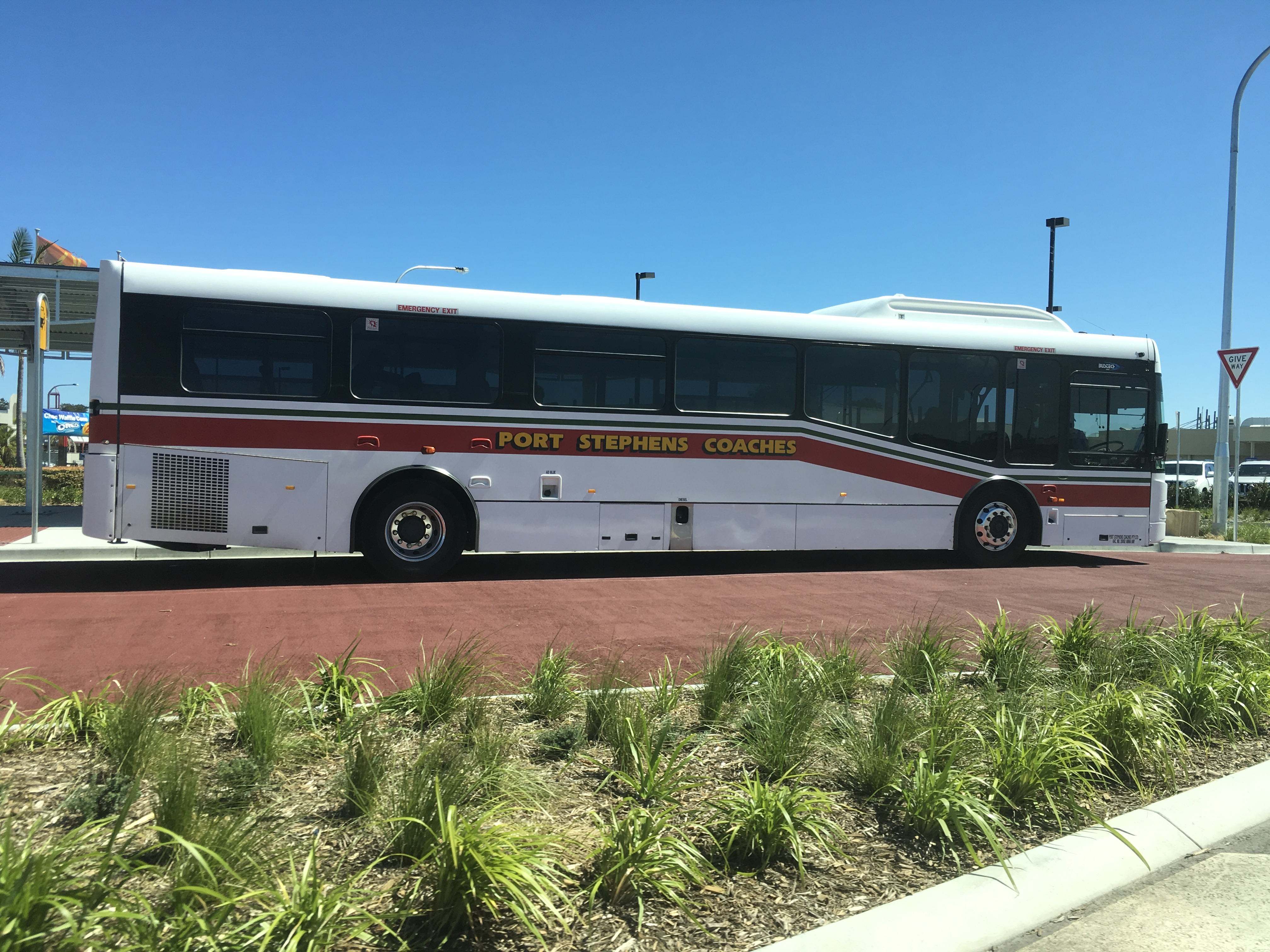 A bus in Salamander Bay, a suburb of Port Stephens. Port Stephens Coaches forms the spine of public transport in Port Stephens and connects it to the airport as well as NSW TrainLink services from Newcastle.